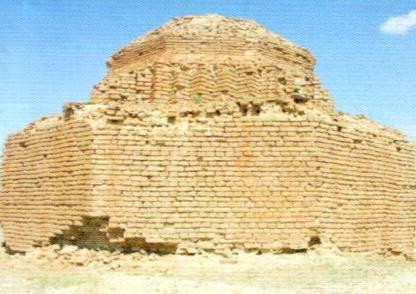 Жаныс би күмбезі